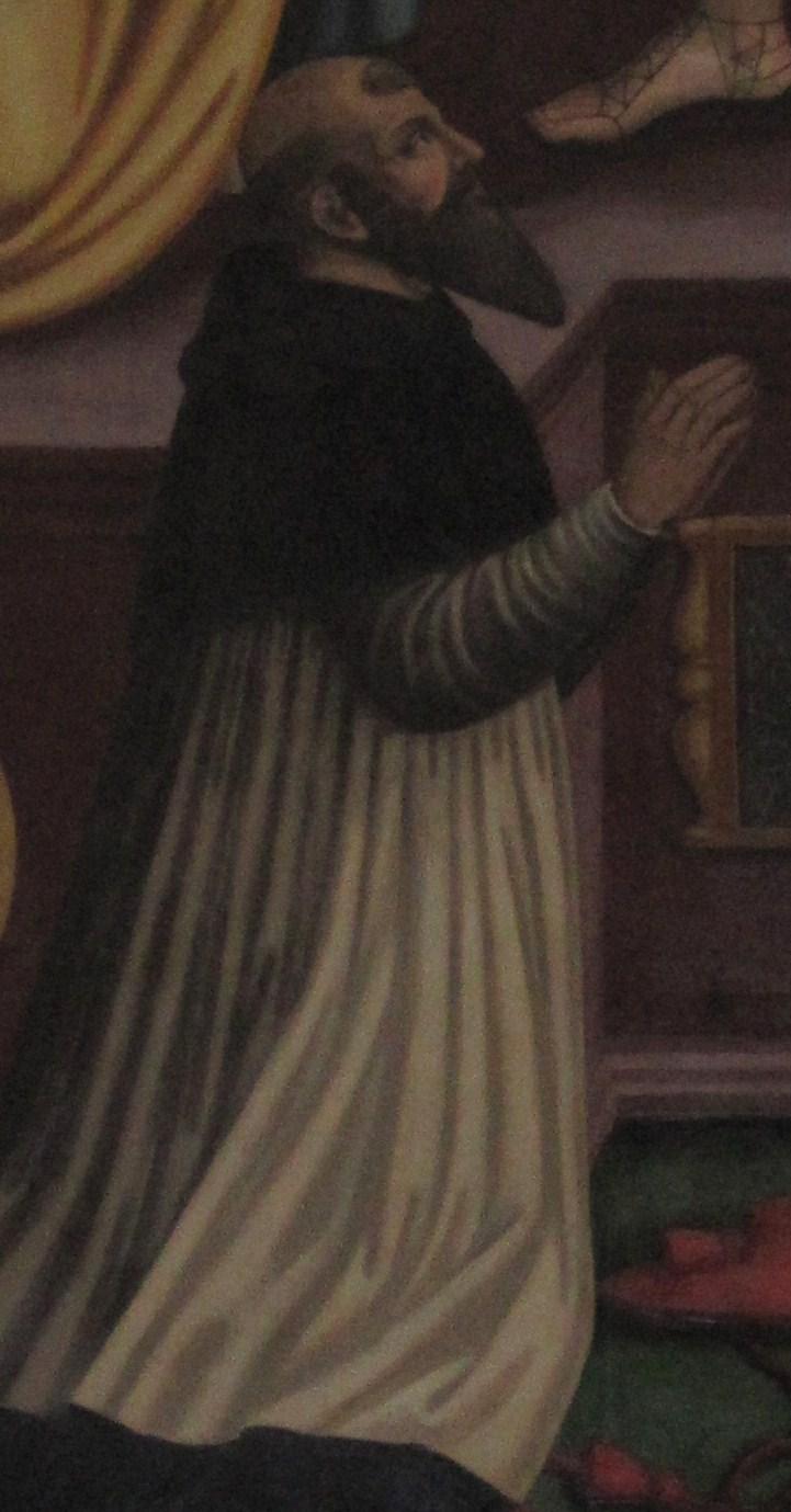 Gilles of Viterbo, part of picture 1537, Church Ss.Trinità, Viterbo